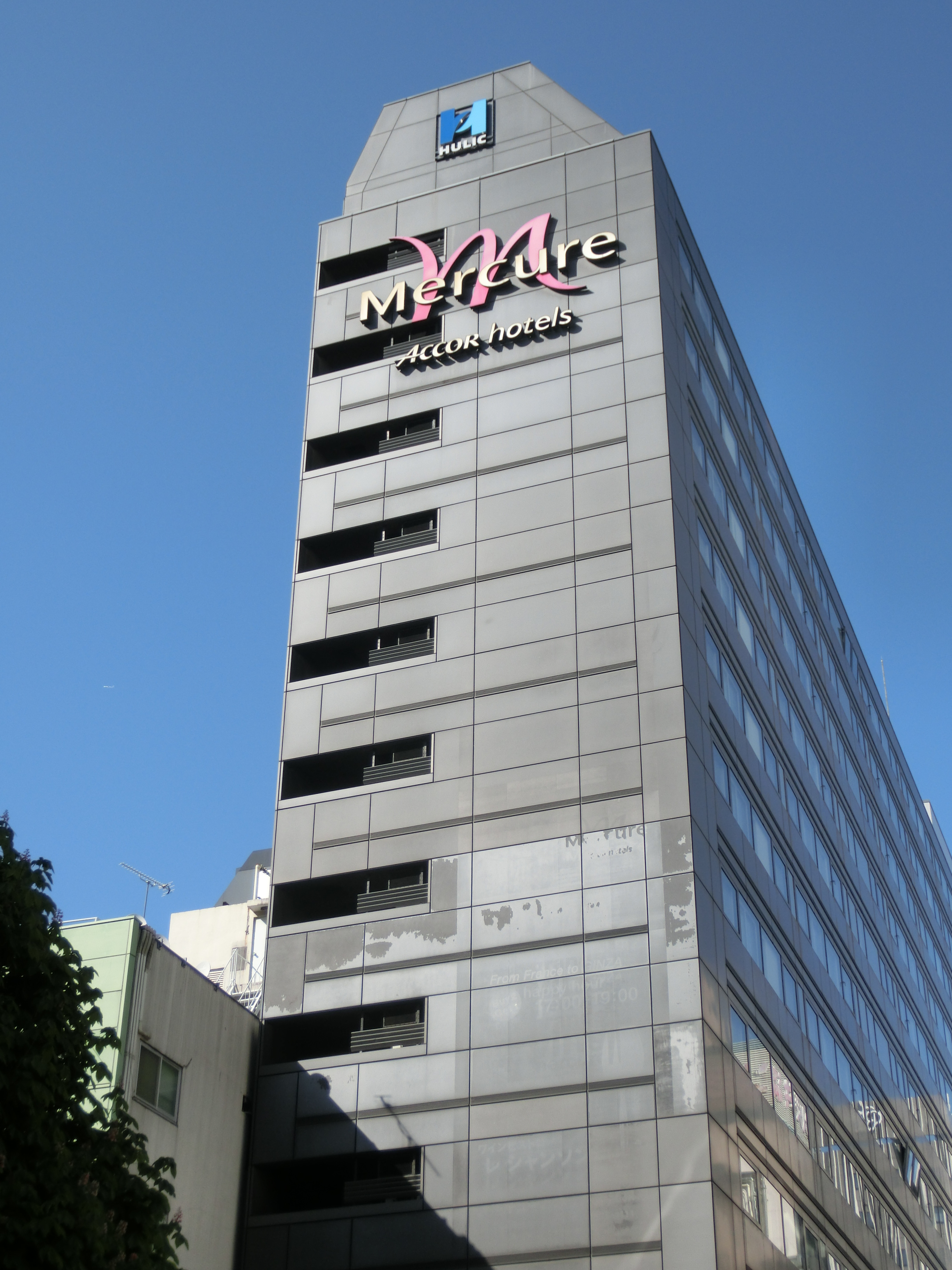 Mercure Tokyo Ginza